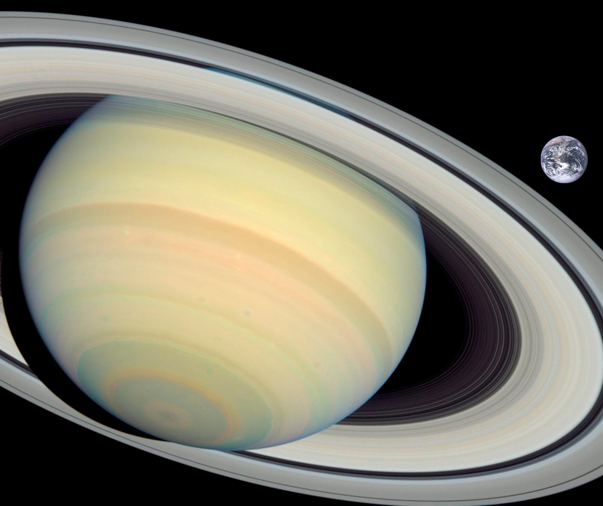 Diameter comparison of Saturn and Earth.